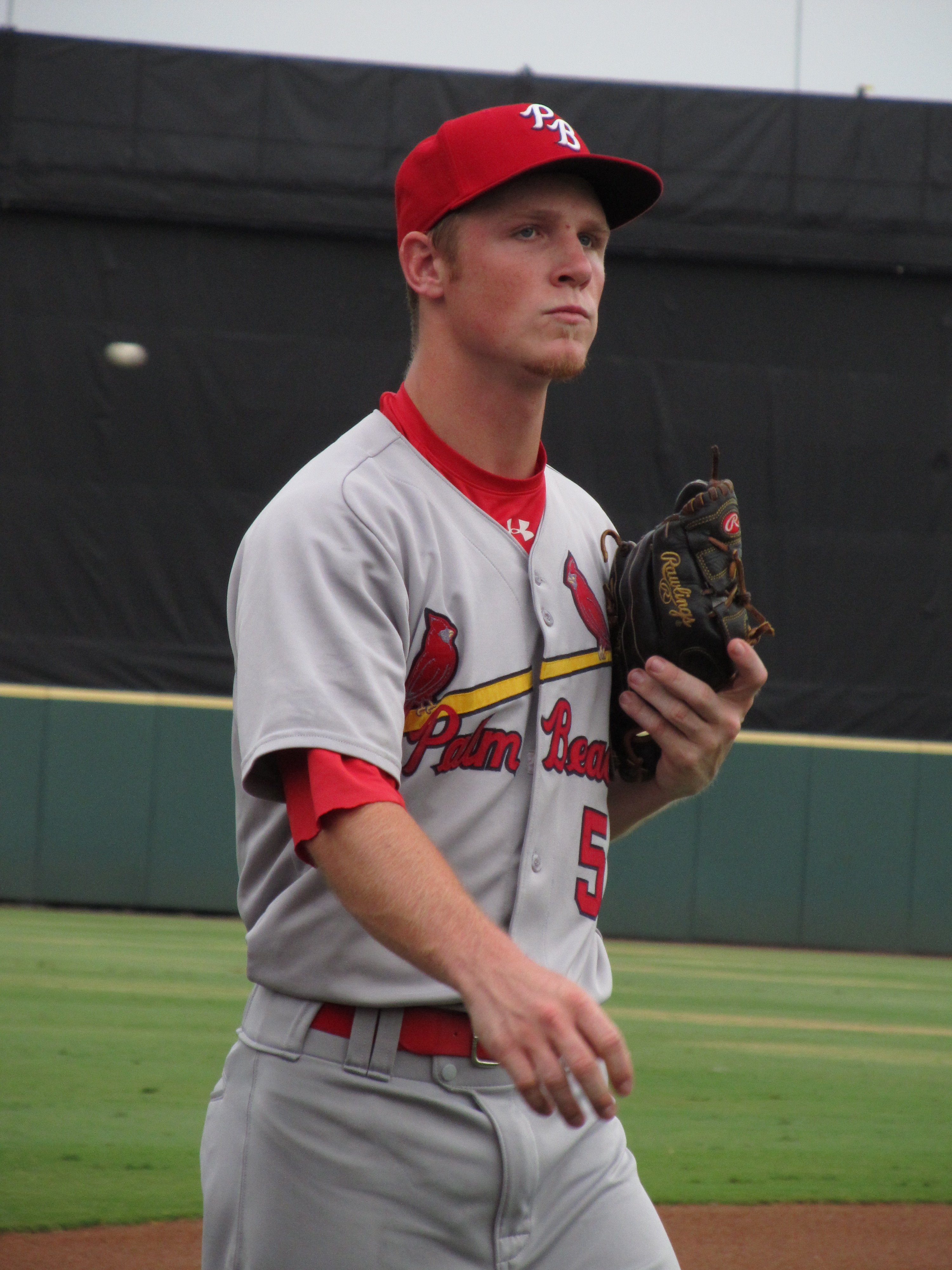 Pitcher Keith Butler of the St. Louis Cardinals. Seen here while playing for the teams minor-league affilate Palm Beach.